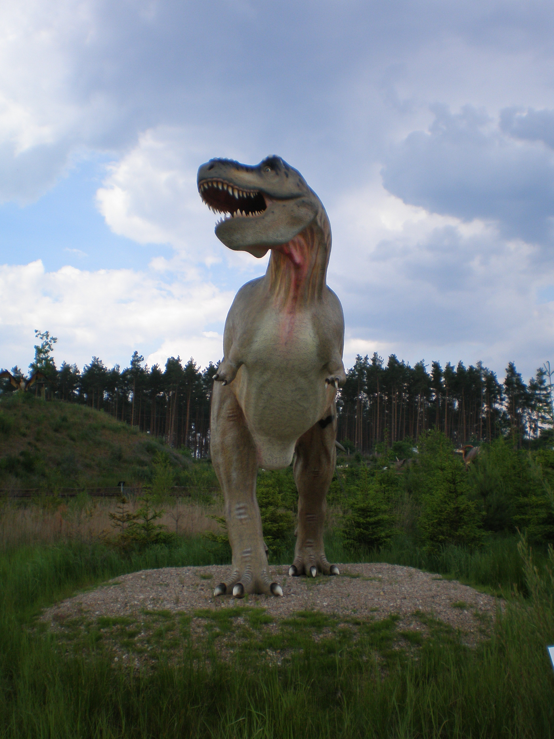 Restoration of a Tyrannosaurus in Tierpark Germendorf